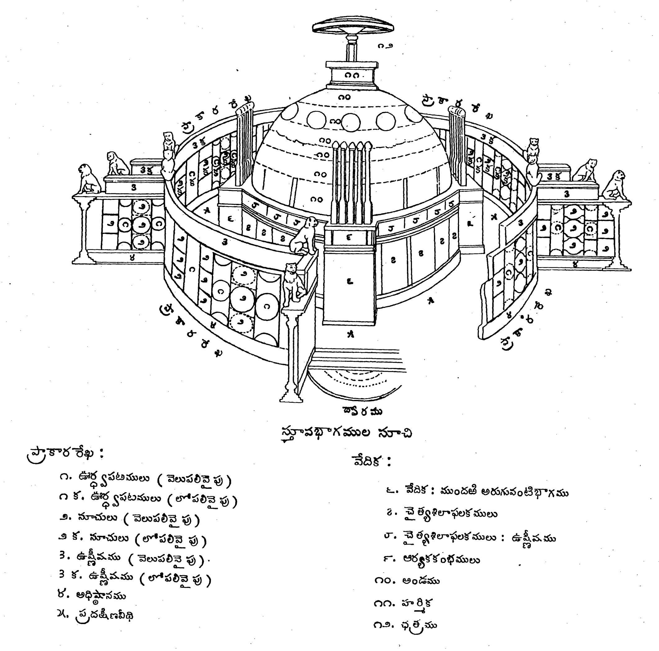 Architecture of Amaravathi Stupa